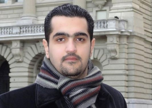 Hussain Jawad Parweez in Bern, Switzerland in 2012. The picture was taken by his wife, Asma Darwish Ebohr.